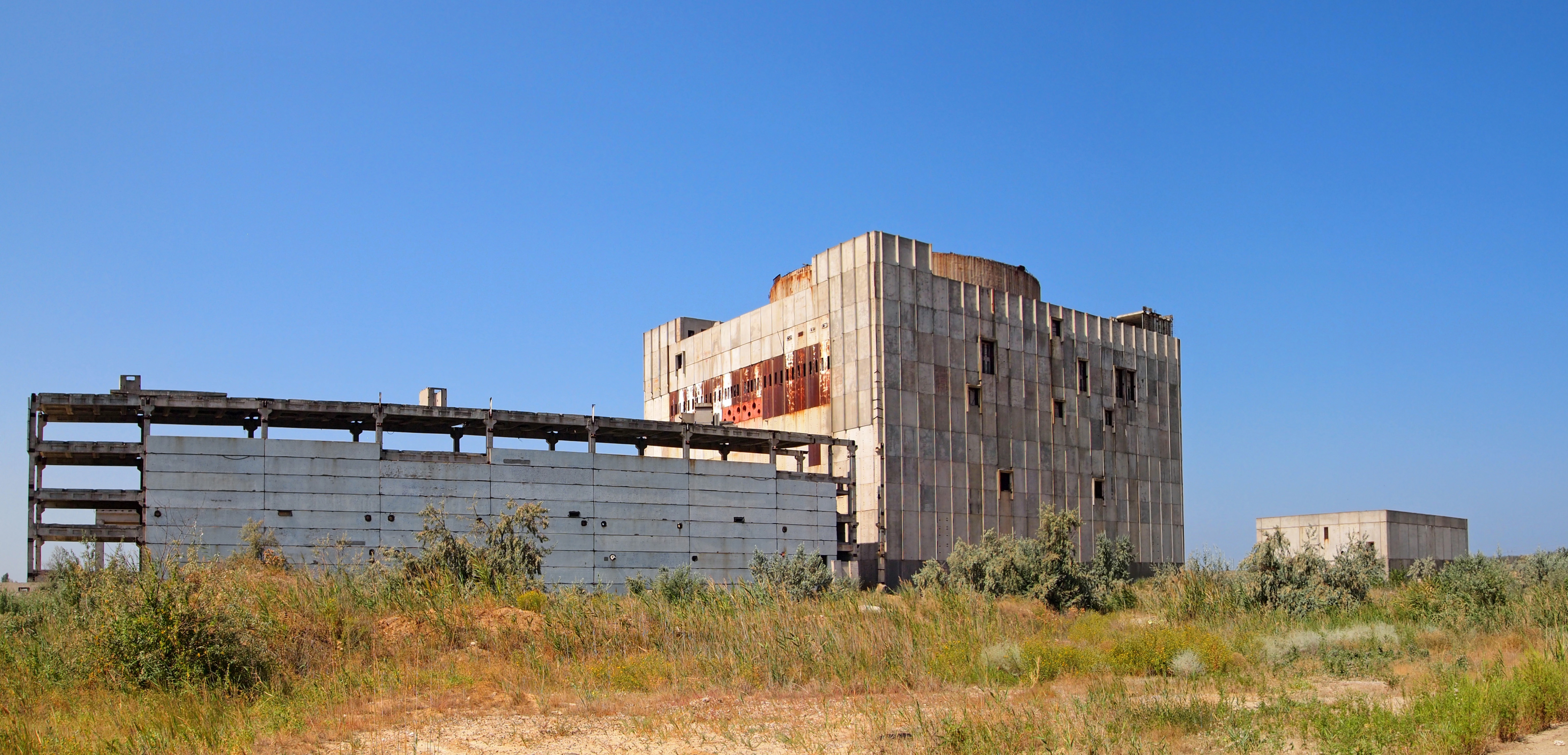 Crimea Nuclear Power Plant. The building in abandoned and the construction never finished. This photograph was taken with a Olympus E-PL1.